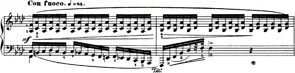 Second theme of Chopin's Nocturne Op 15, No 1